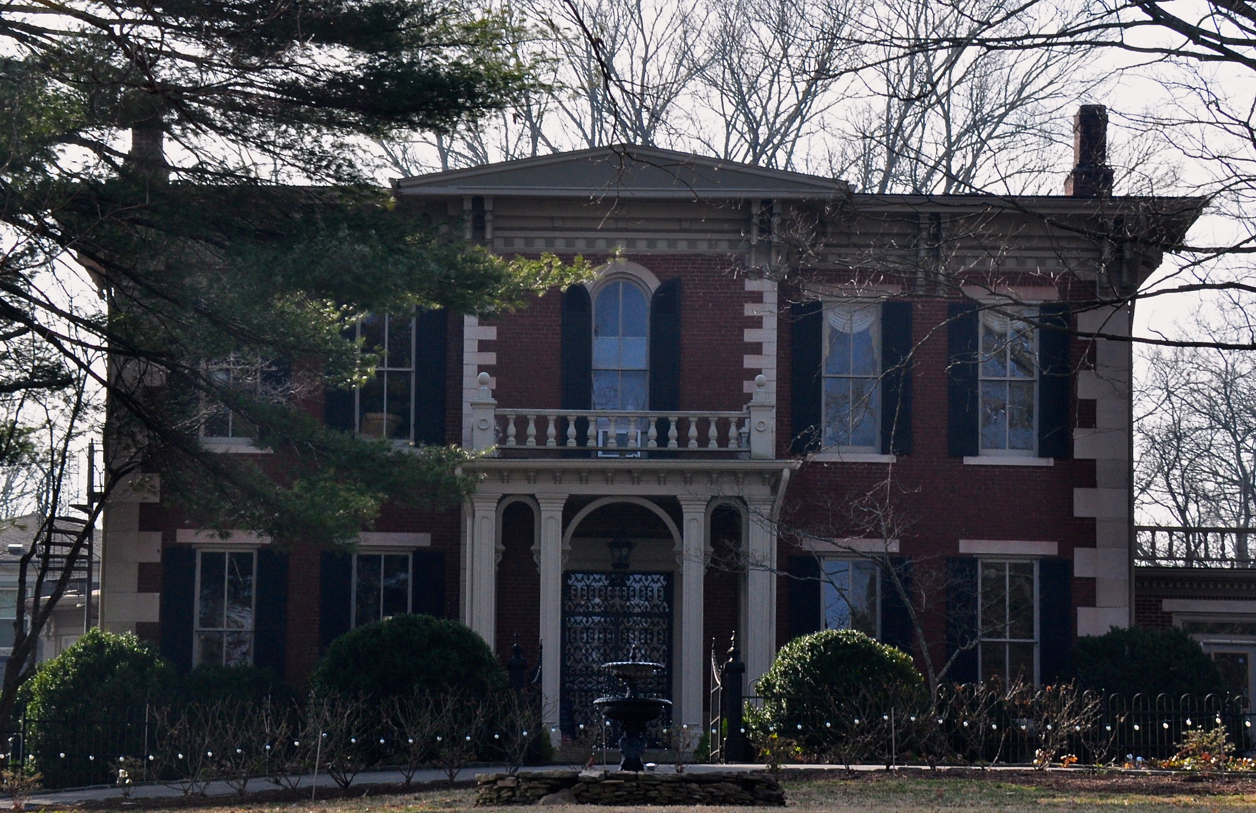 Also known as the Abbey Leix Mansion, now the administration building for the O'More College of Design. NRHP Reference # 79002486